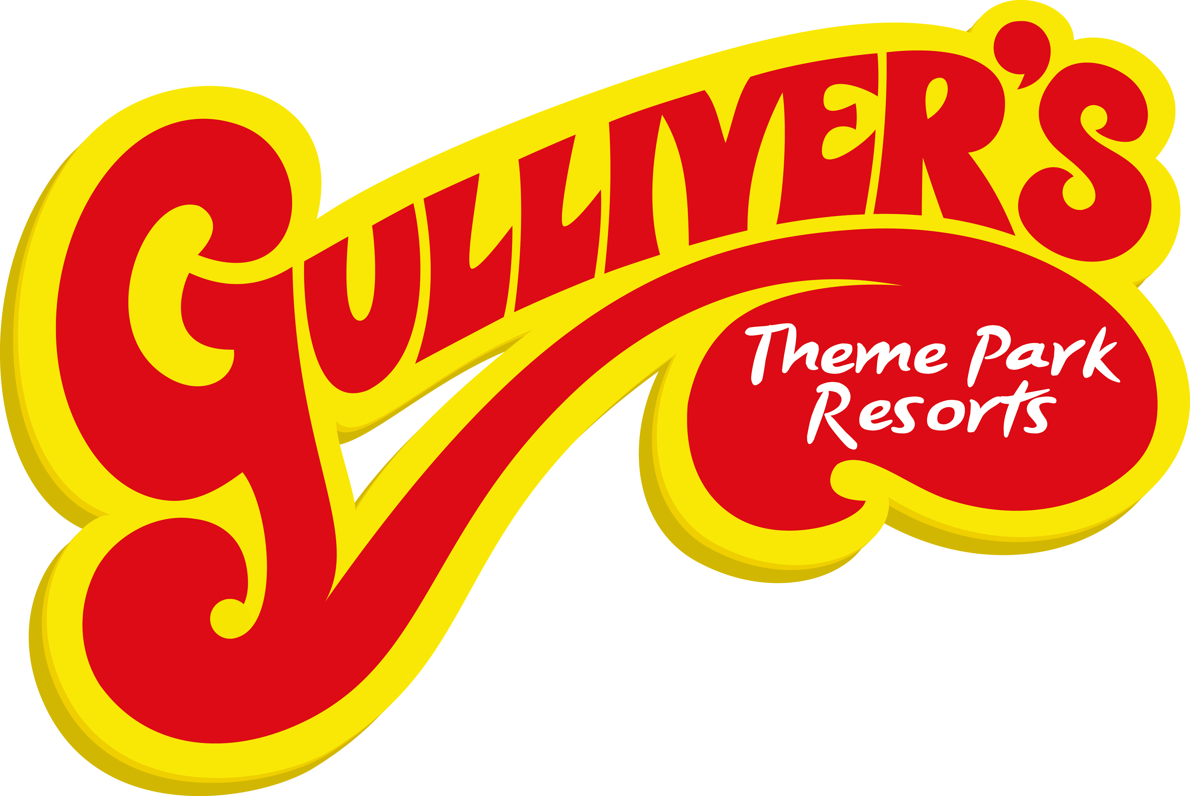 Gulliver's Logo